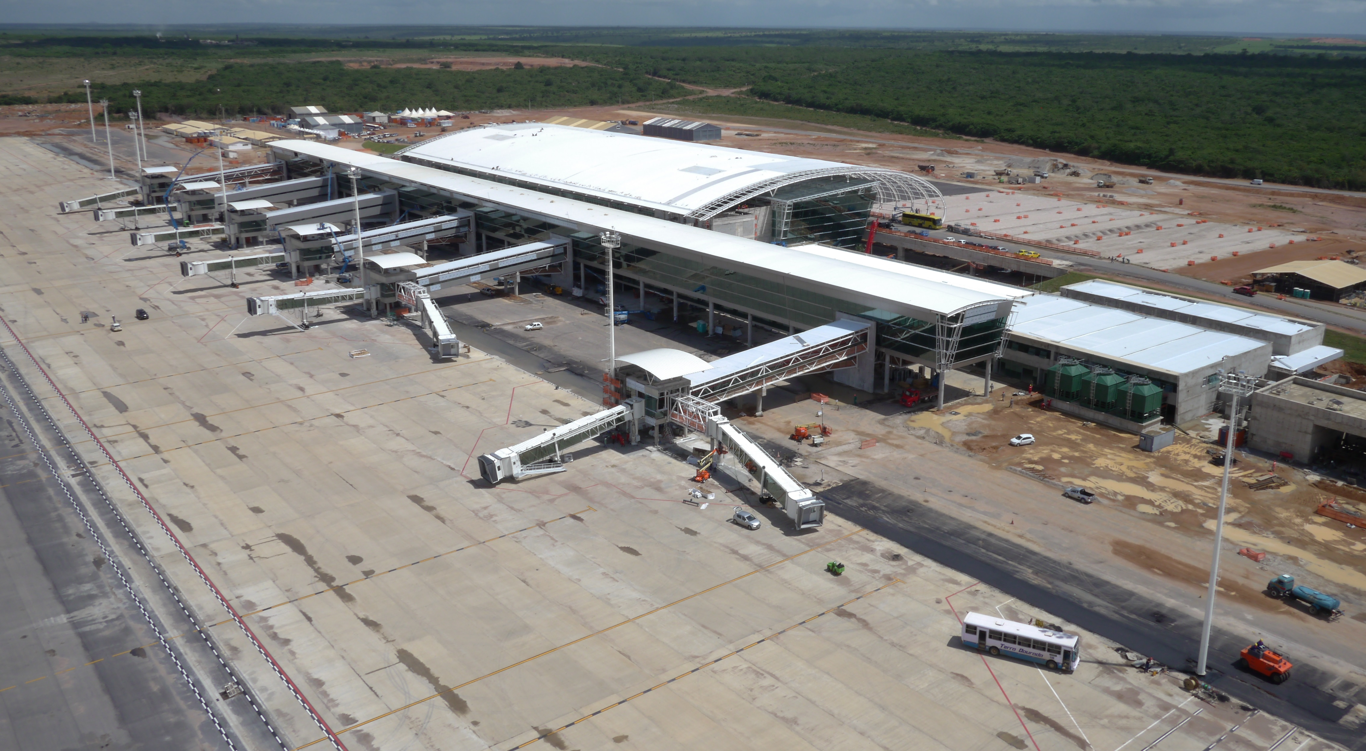 Aeroporto Internacional de São Gonçalo do Amarante